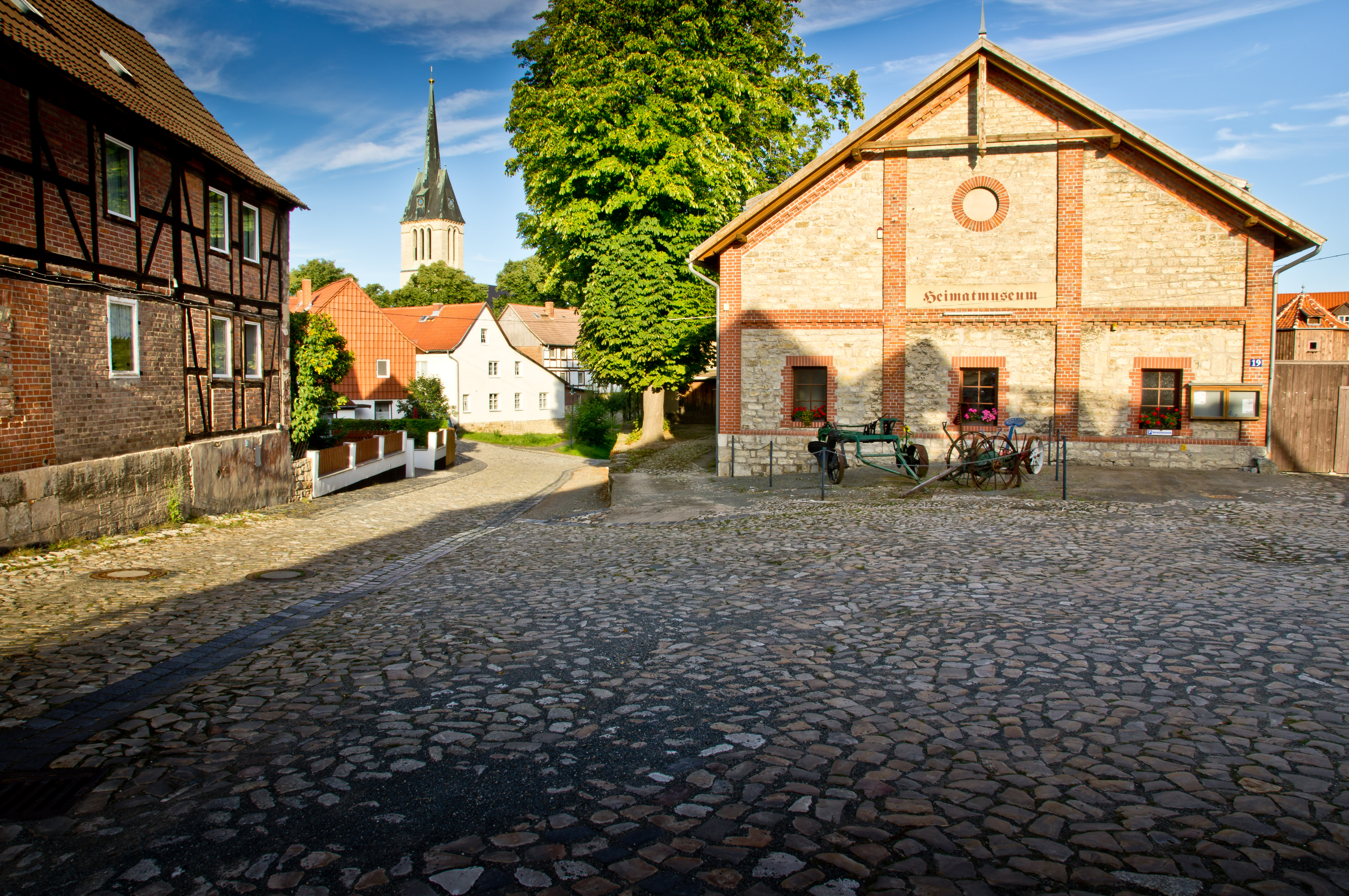 Museum of local history in Ditfurt (Germany). In the background: spire of "St. Bonifatius" church